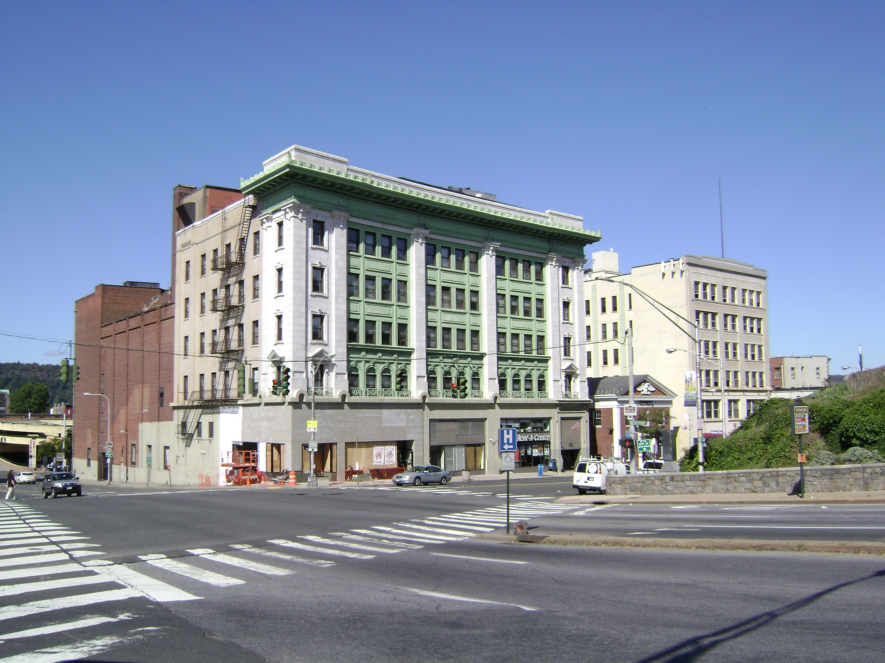 Proctor